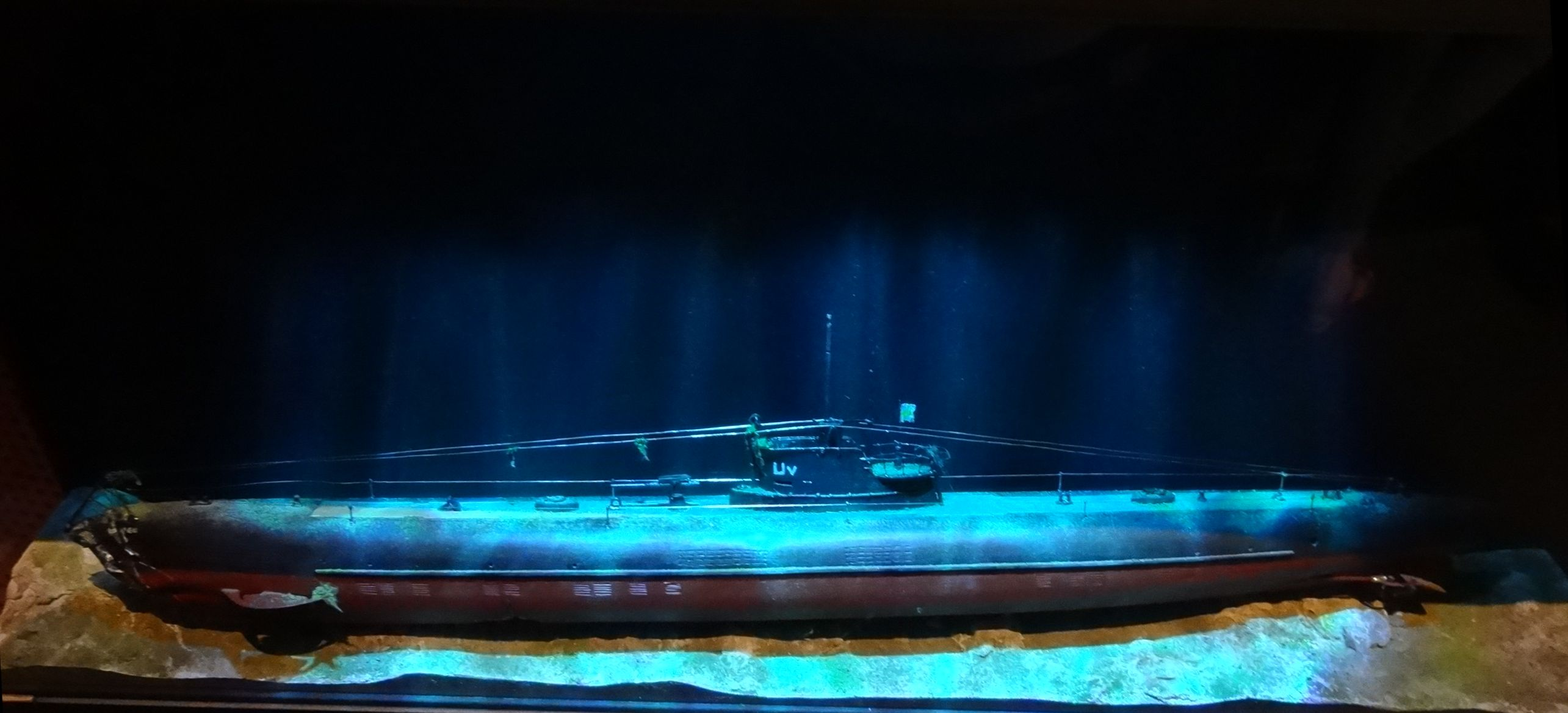 The minestruck Swedish submarine HMS Ulven, in diorama at Marinmuseum, Karlskrona, Sweden.